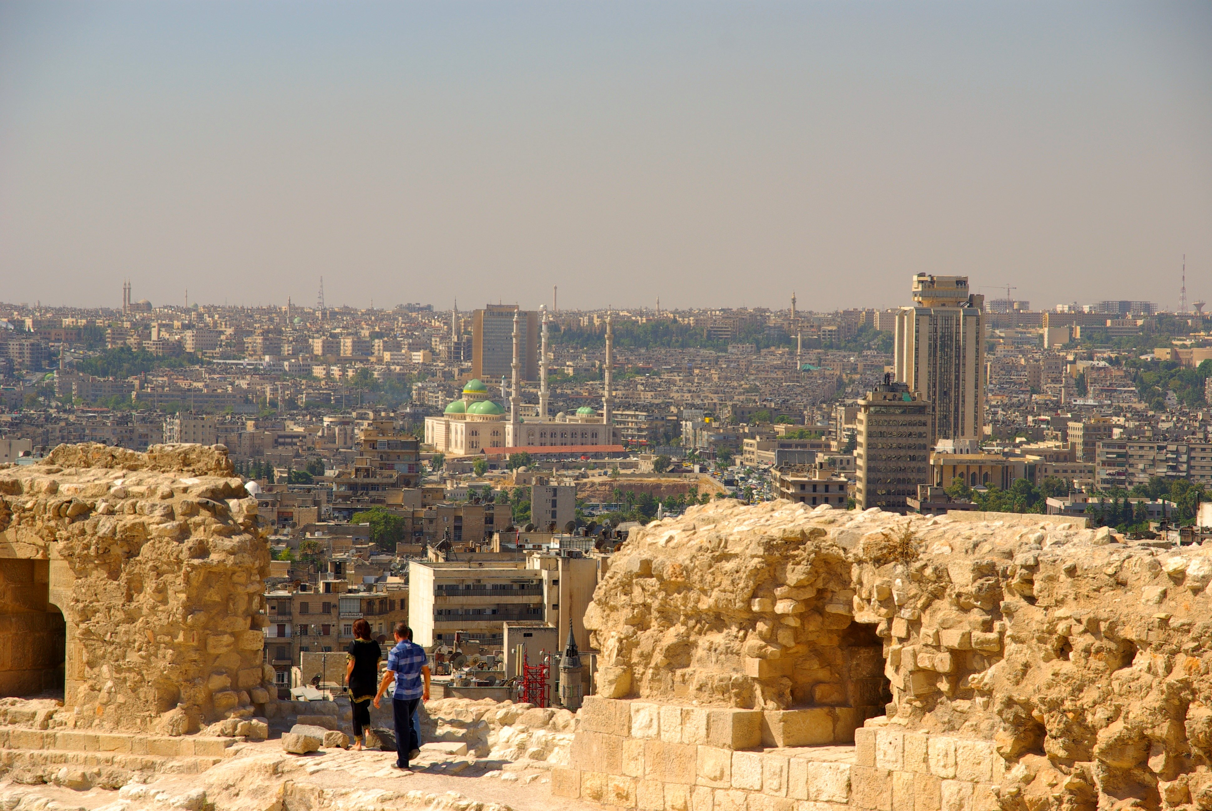 Aleppo general view